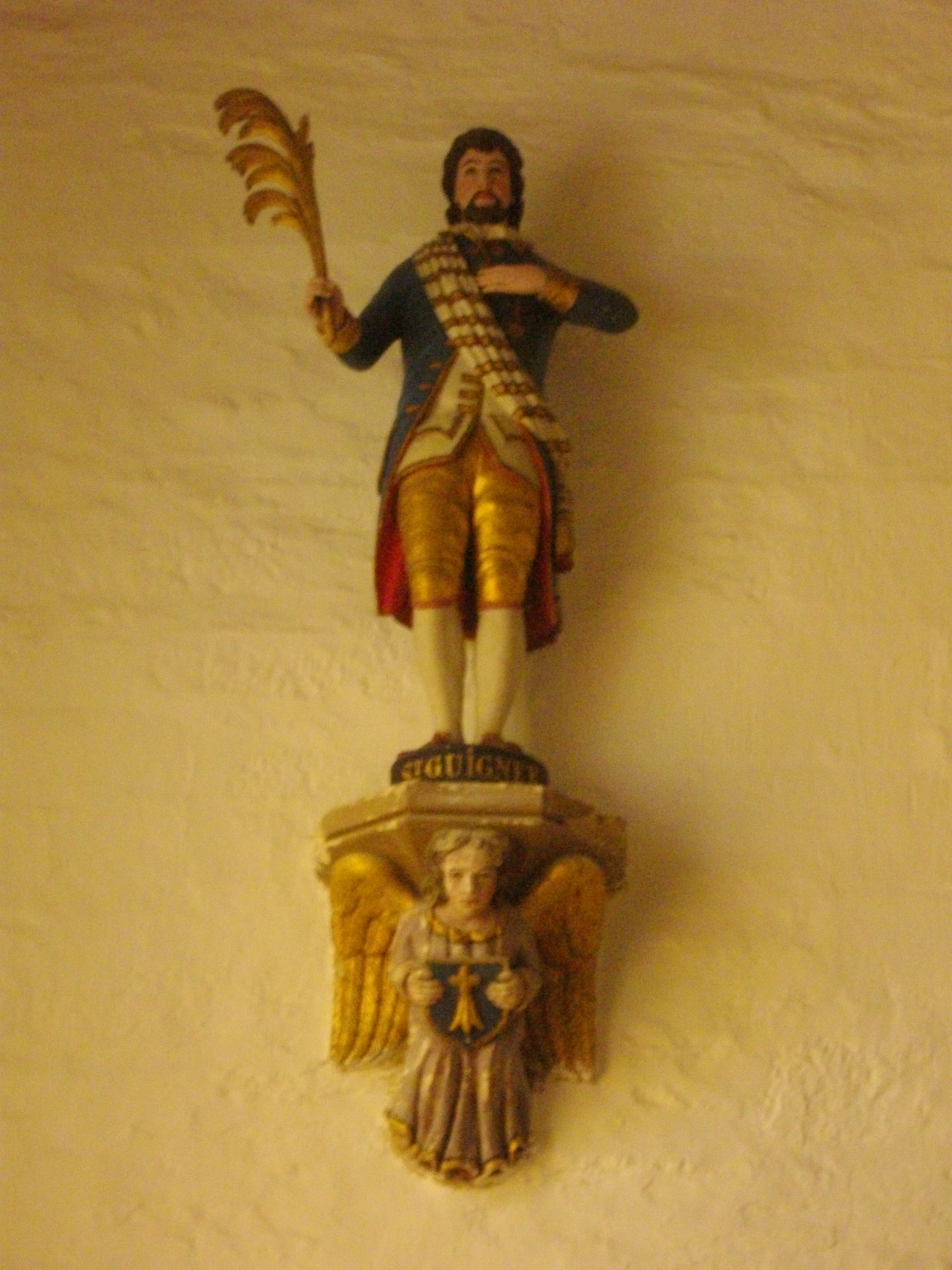 Saint Guigner church of Pluvigner (Morbihan, France). Statue of Saint Gwinear .